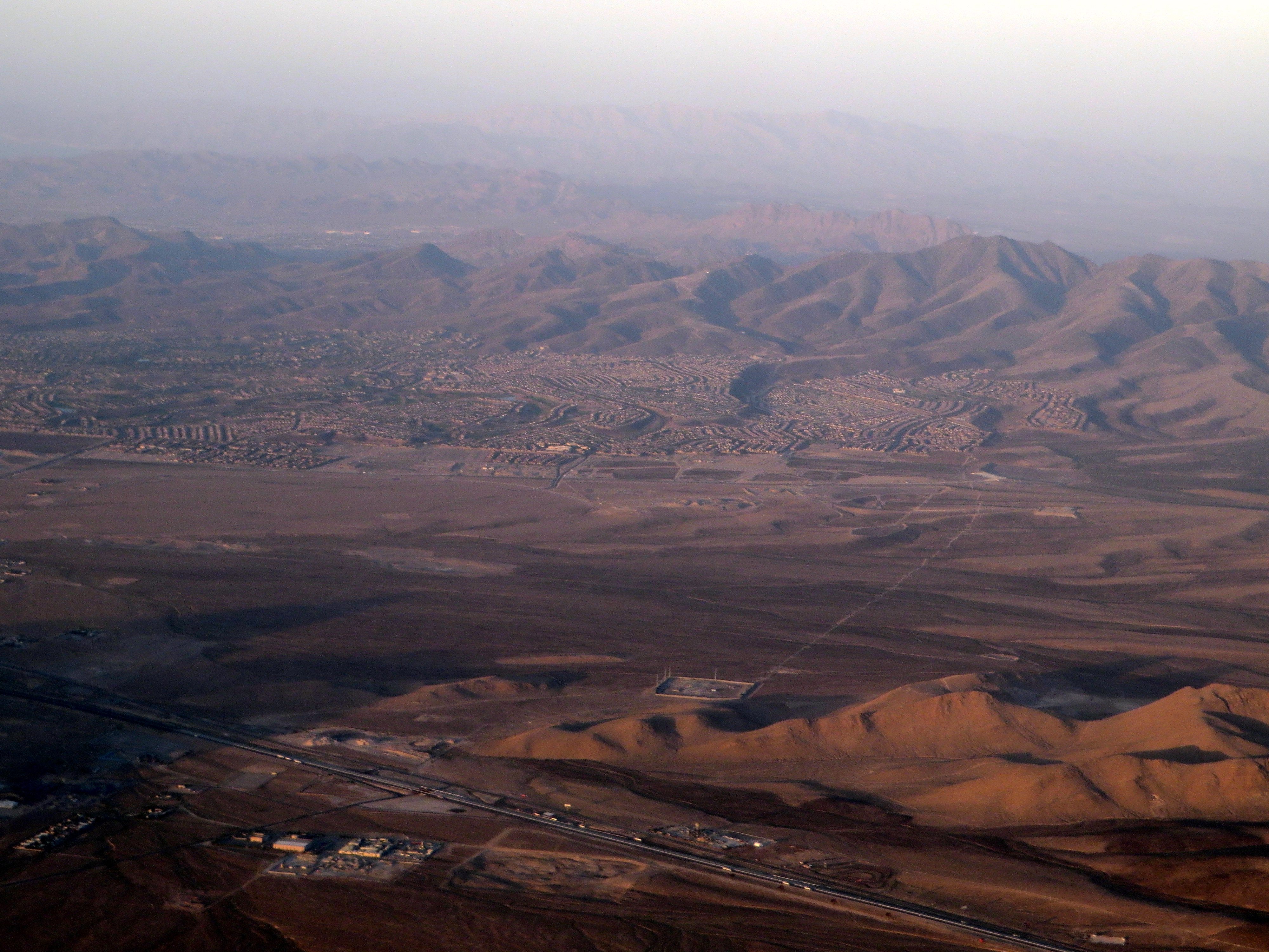 Henderson, officially the City of Henderson, is a city in Clark County, Nevada. It is the second largest city in Nevada, after Las Vegas, with an estimated population of 265,679 in 2012. The city is part of the Las Vegas metropolitan area, which spans the entire Las Vegas Valley. Henderson occupies the southeastern end of the valley, at an elevation of approximately 1,330 feet (410 m). In 2011, Forbes magazine ranked Henderson as America's second safest city. Analysts attribute this to Henderson being an affluent city, with a high median income and amenities catering to local residents. Henderson has also been named as "One of the Best Cities to Live in America" by Bloomberg Businessweek. In 2014, Henderson was again ranked as one of the Top 10 "Safest Cities in the United States", by the FBI Uniform Crime Report.